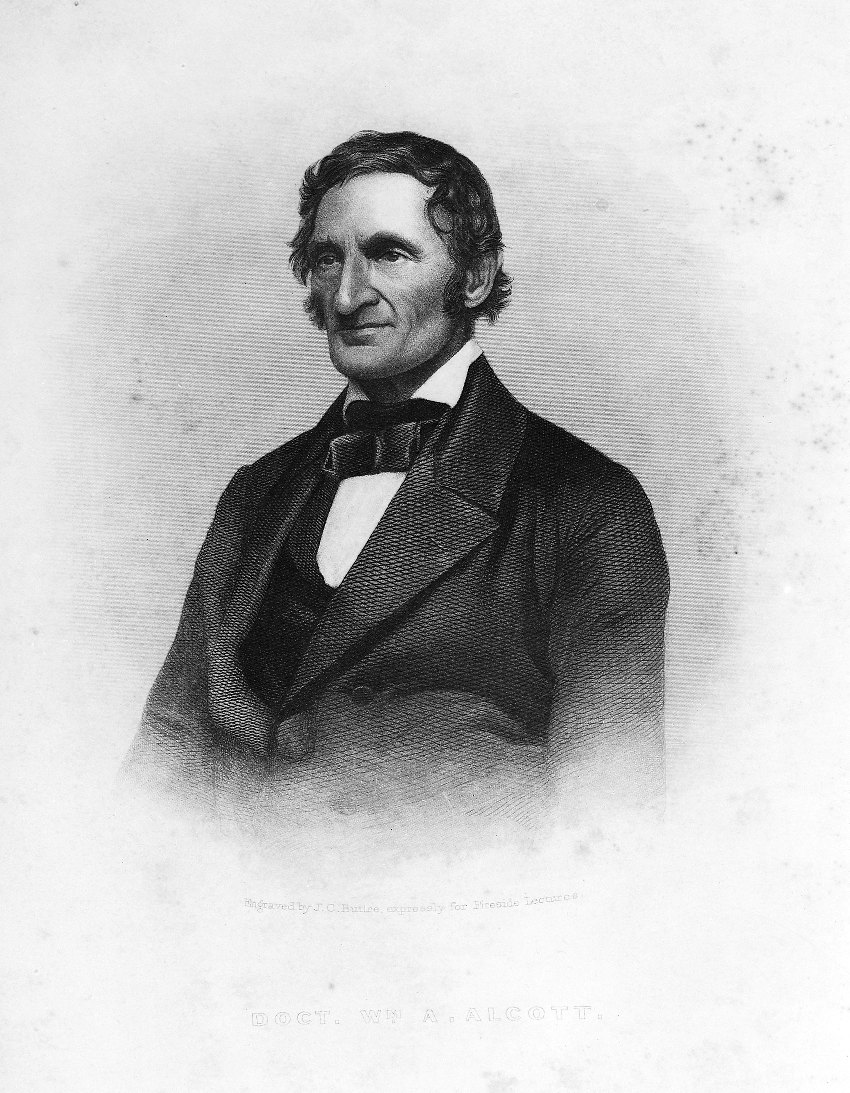 William Alexander Alcott; engraved for "fireside Lectures" Iconographic Collections Keywords: J.C. Buttre; William Alexander Alcott